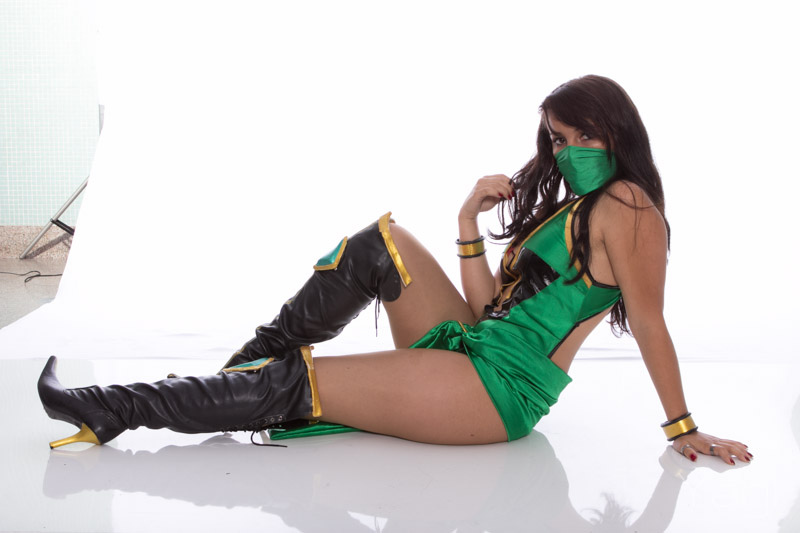 AnimABC - 2011 2nd ed.